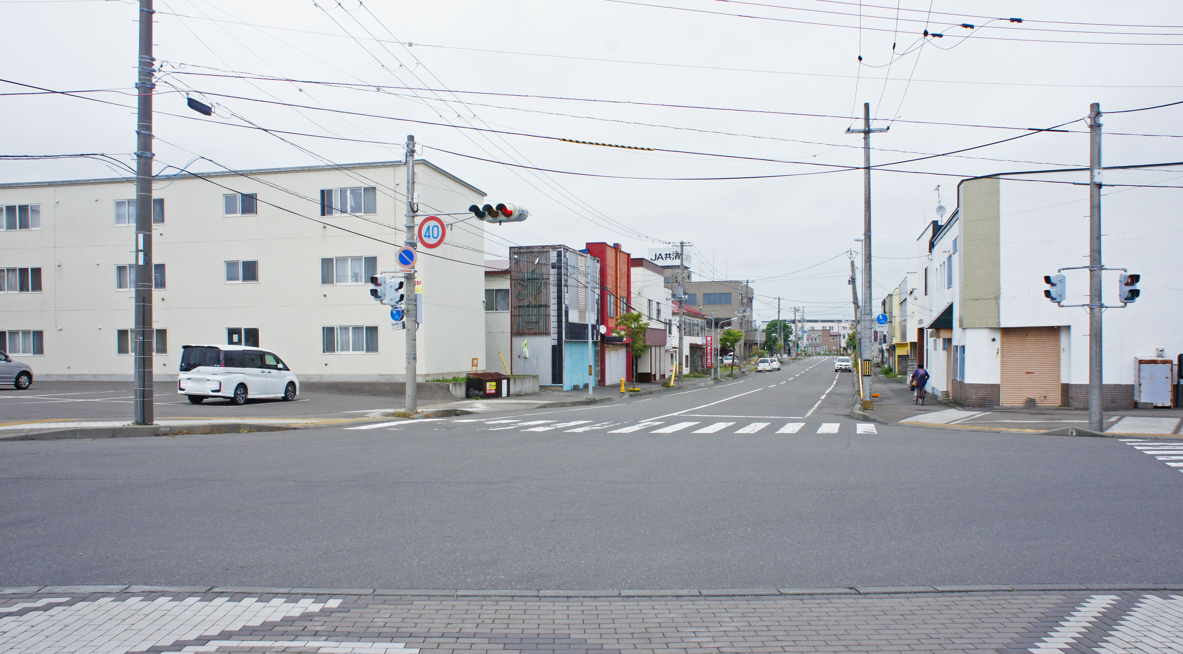 Station Square of JR Hidaka-Main-Line Shizunai Station